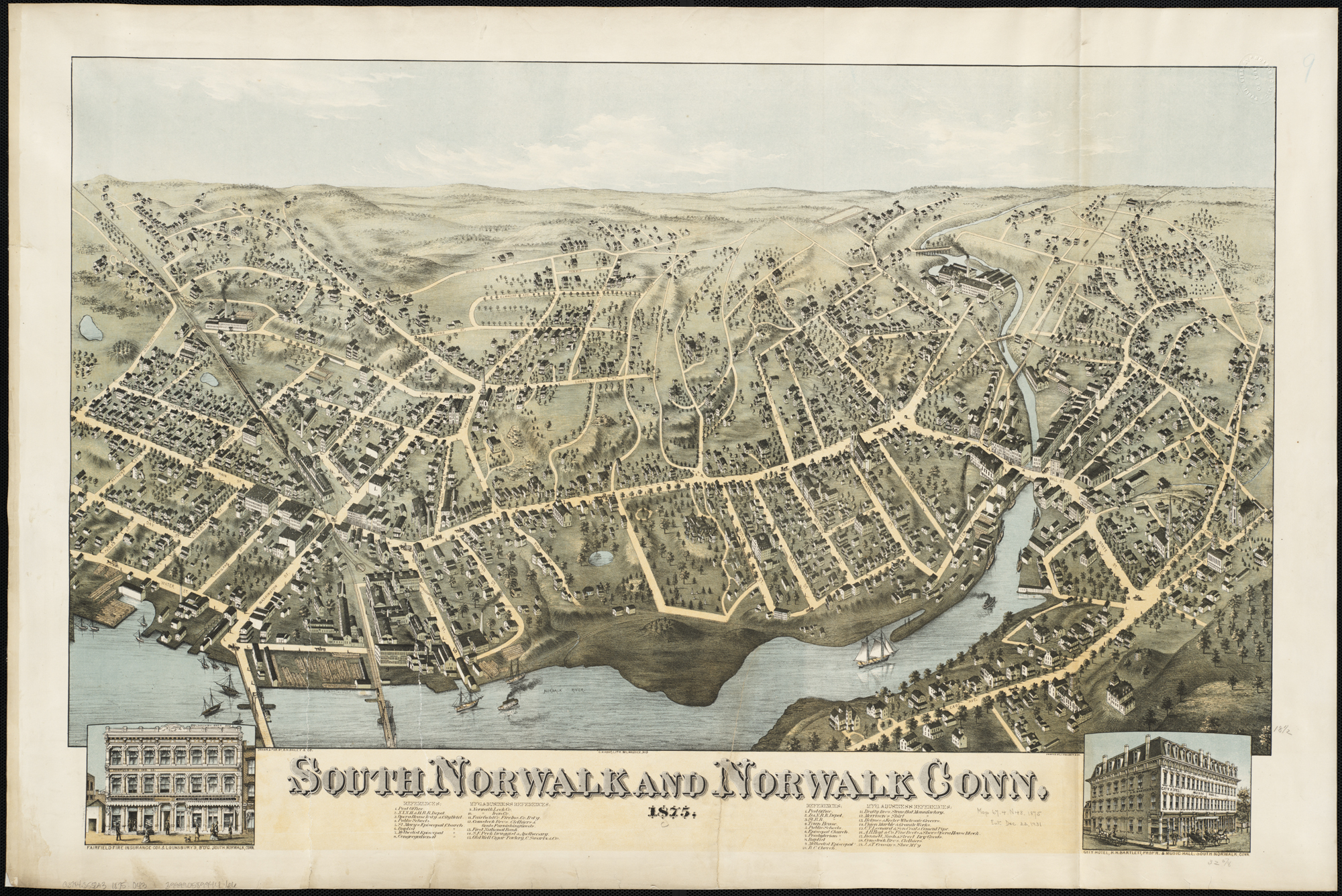 Zoom into this map at . Author: O.H. Bailey & Co. Publisher: O.H. Bailey & Co. Date: 1875 Location: South Norwalk (Norwalk, Conn.) Scale: Not drawn to scale. Call Number: G3784.S552A3 1875.O43